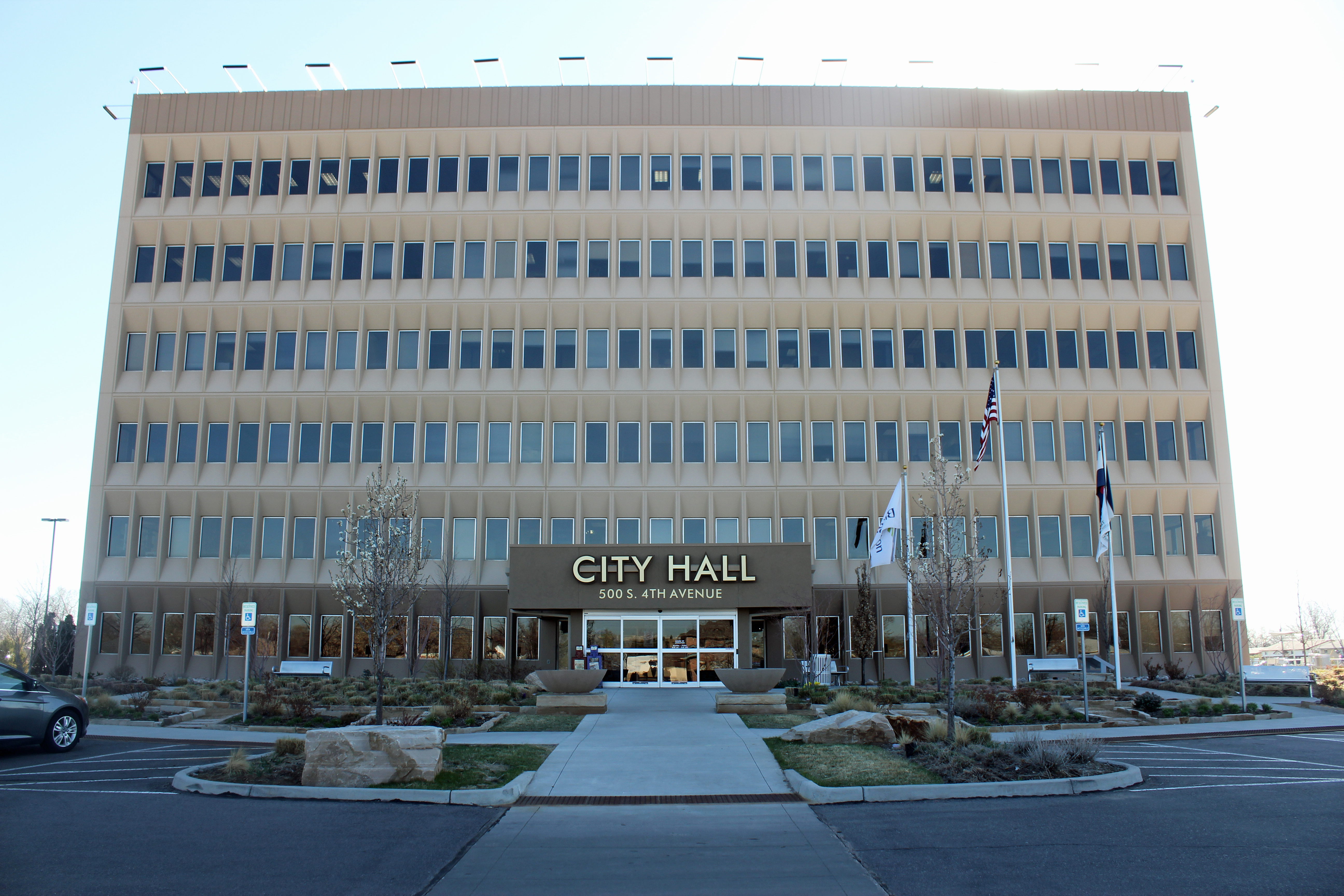 The Brighton, Colorado City Hall, located at 500 South 4th Avenue in Brighton, Colorado.